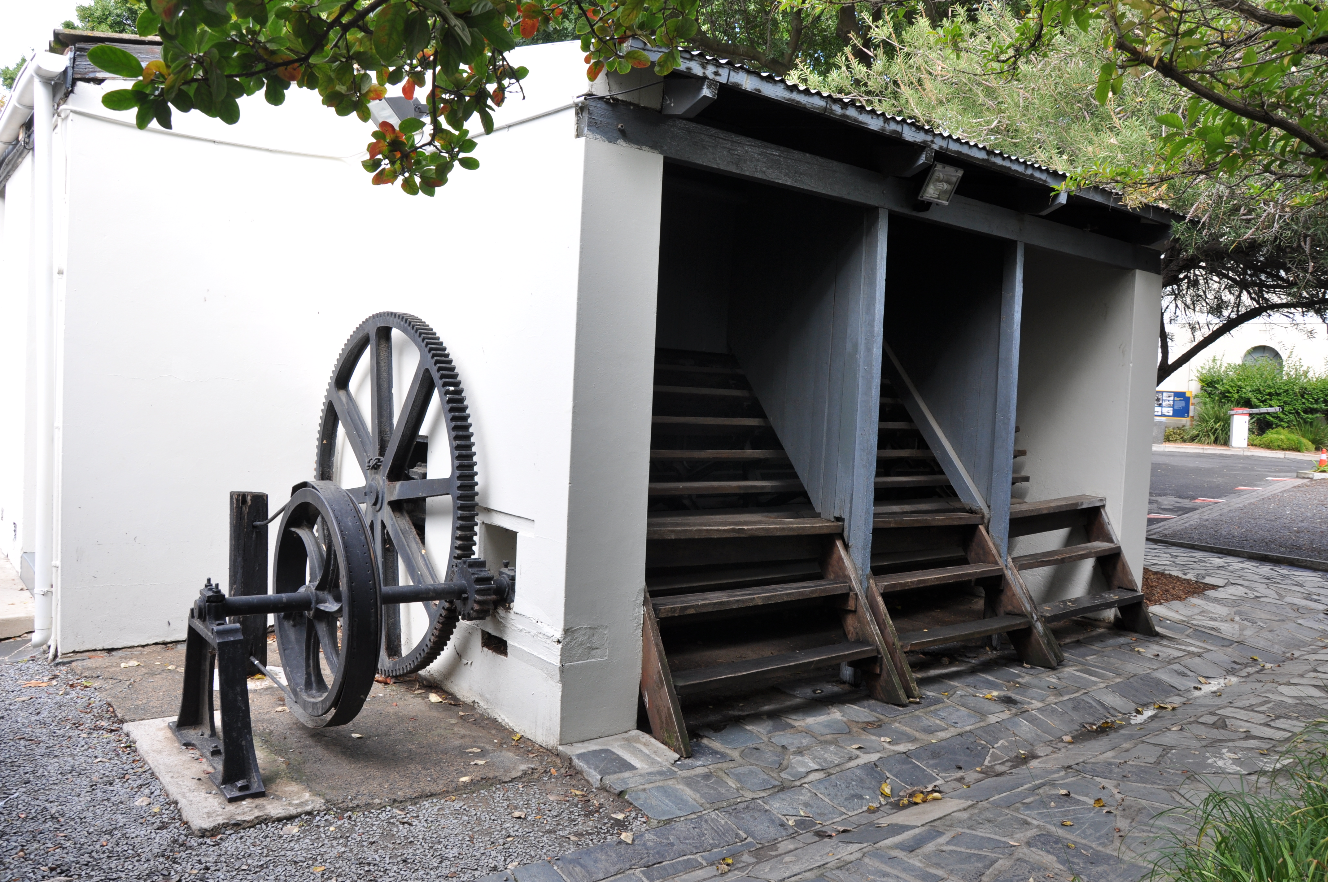 Treadmill used to punish prisoners at Breakwater Prison (now Breakwater Lodge), Portswood Road, Victoria & Alfred Waterfront This media shows a South African Protected Site with SAHRA file reference 9/2/018/0034/002/04.